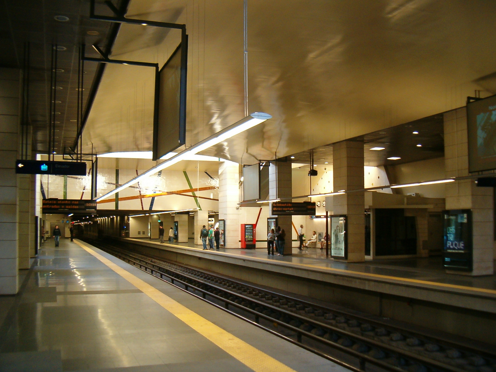 Photo of Pontinha metro station in Lisbon (platform)